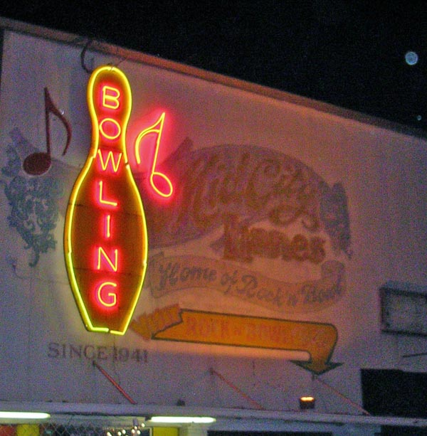 The Neon Sign of Rock N' Bowl